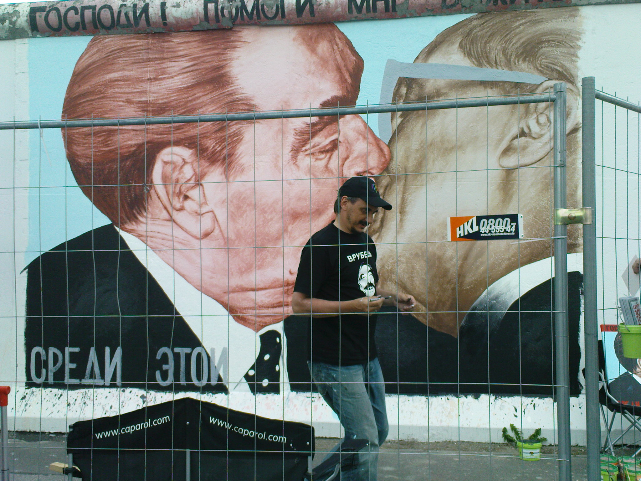 Dmitri Vrubel repaints his famous painting "brotherly kiss" on the East Side Gallery, one of the few remains of the Berlin Wall